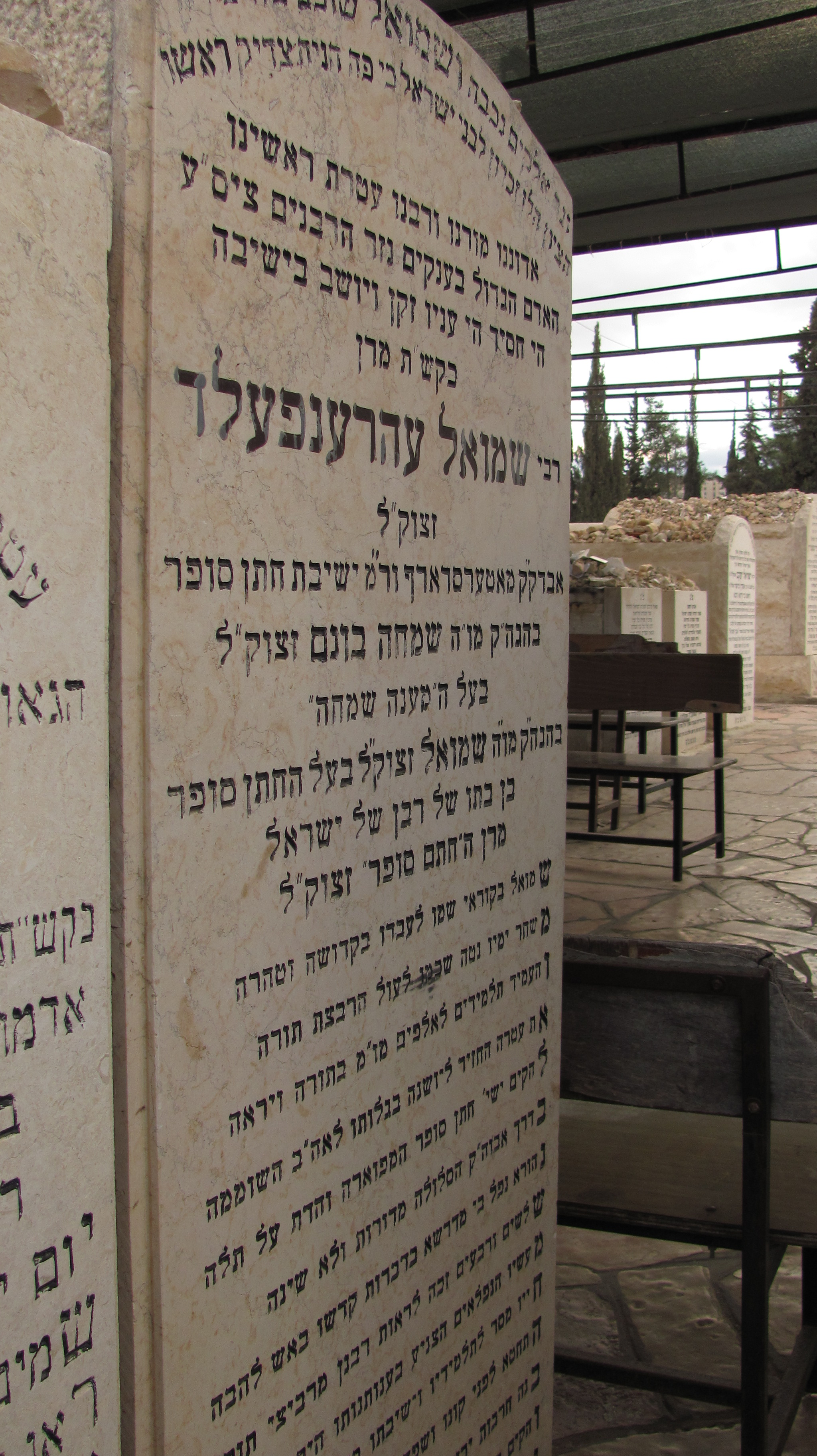 Gravestone of Shmuel Ehrenfeld (1891-1980), the Mattersdorfer Rav, in the Har HaMenuchos cemetery of Jerusalem